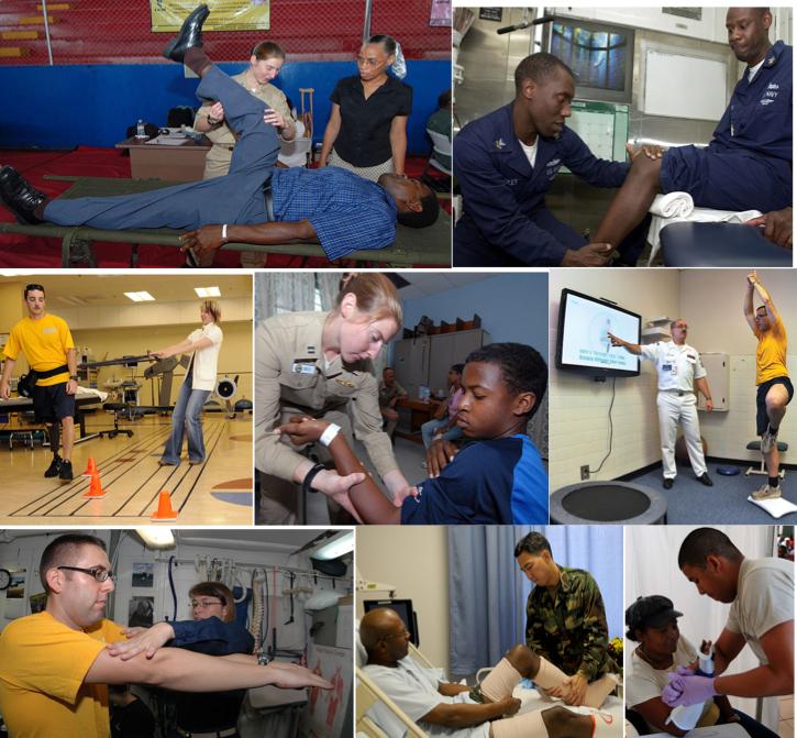 SAN DIEGO (July 23, 2010) Machinist's Mate Fireman George F. Avinger practices cone drills during physical therapy in the Comprehensive Combat and Complex Casualty Care facility at Naval Medical Center San Diego with physical therapist assistant Kristin Valente. Avinger lost his right leg during a motor vehicle accident in Oct. 2009 while stationed at Naval Base Guam. He has been receiving care at NMCSD since Nov. 2009. (U.S. Navy photo by Mass Communication Specialist 1st Class Anastasia Puscian/Released)